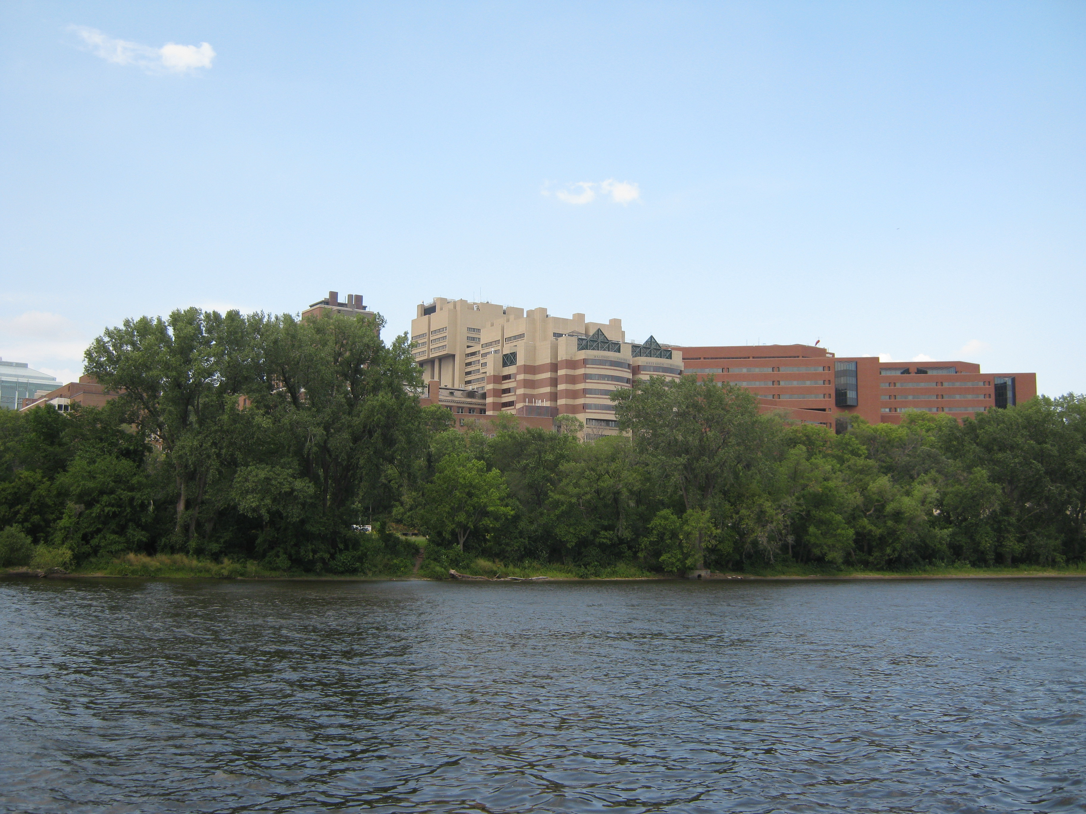 The University of Minnesota's Fairview Hospital and other parts of its Health Area, seen from across the Mississippi River